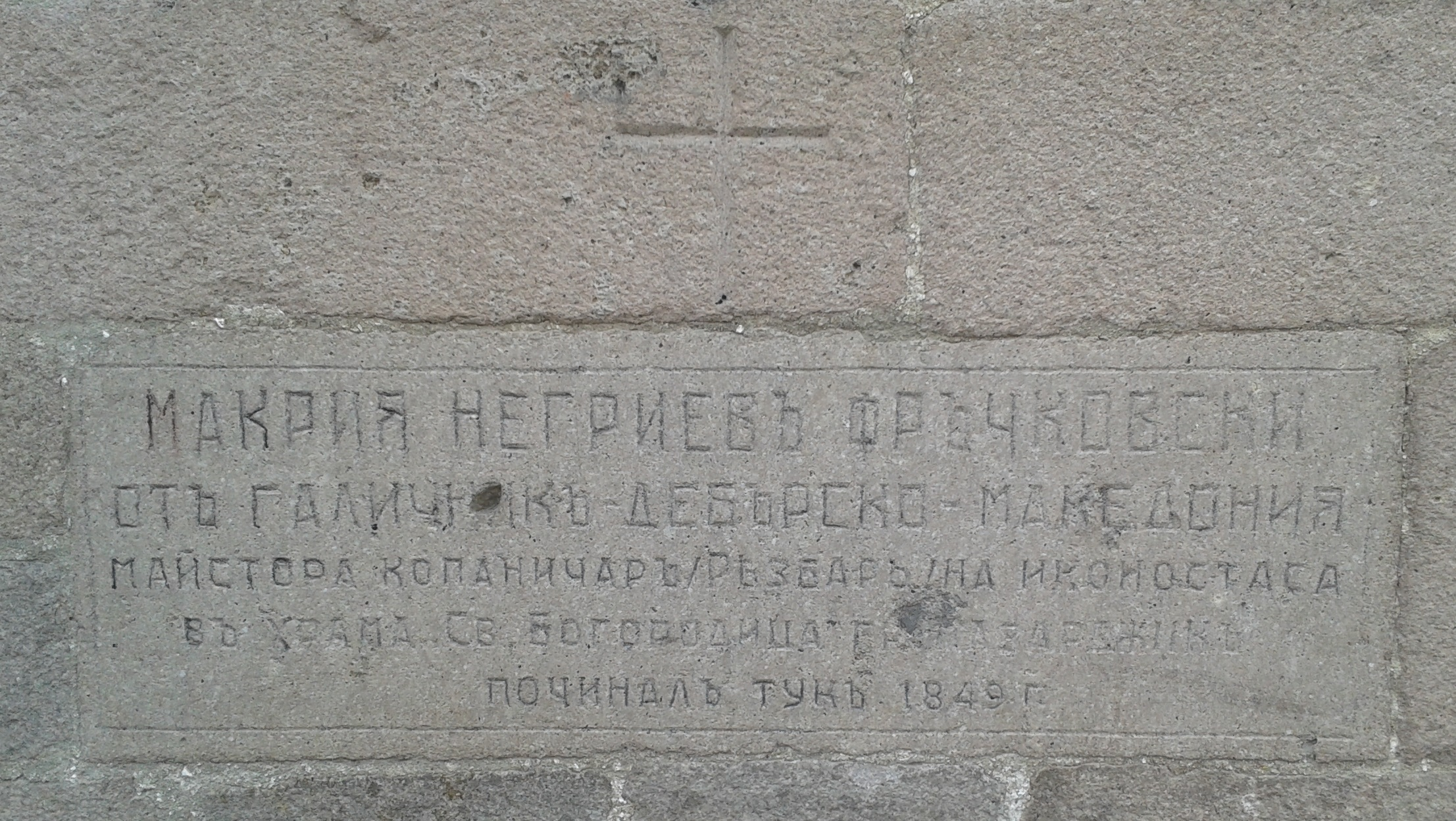 Tomb inscription of Makriy Negriev